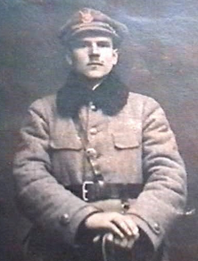 Kajetan Roznowski in period of war polish-bolszewik